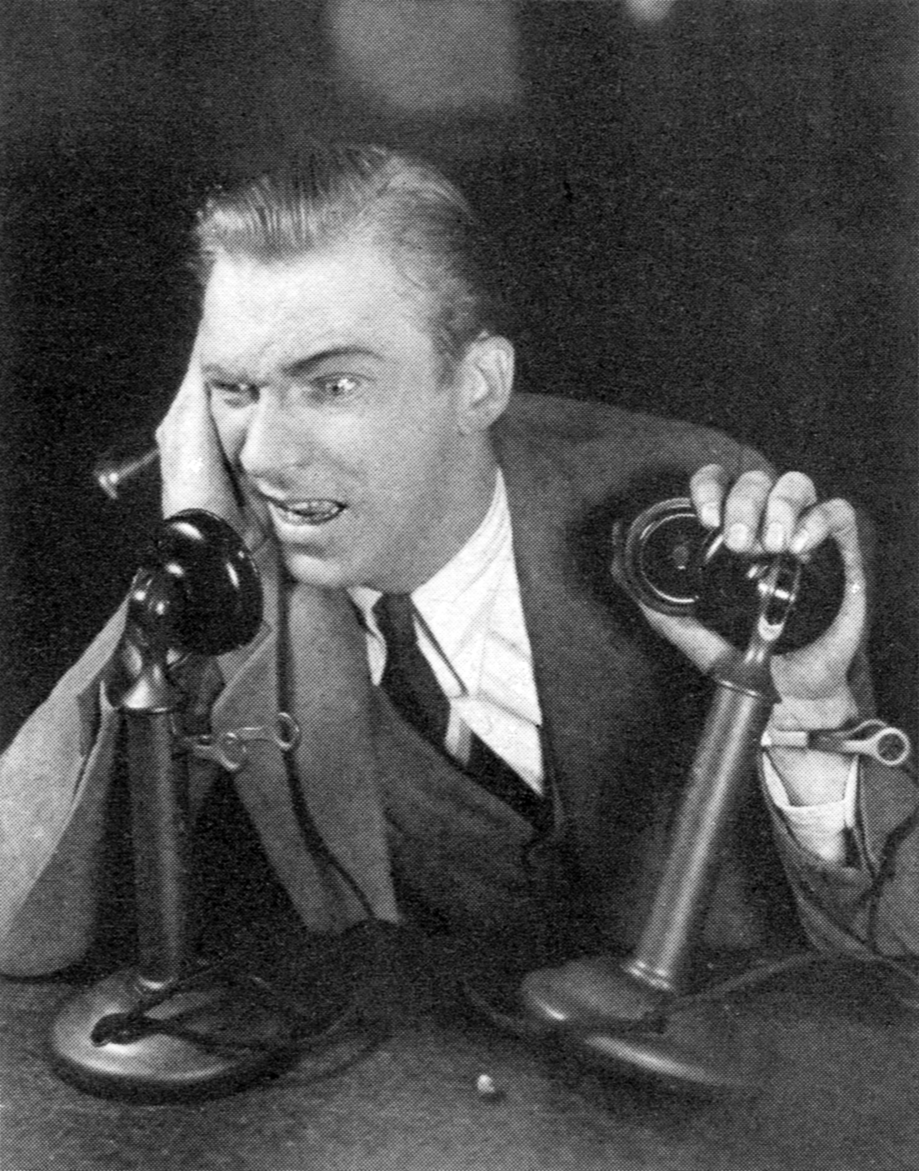 Promotional photograph of Lee Tracy as Hildy Johnson in the 1928 Broadway production of The Front Page